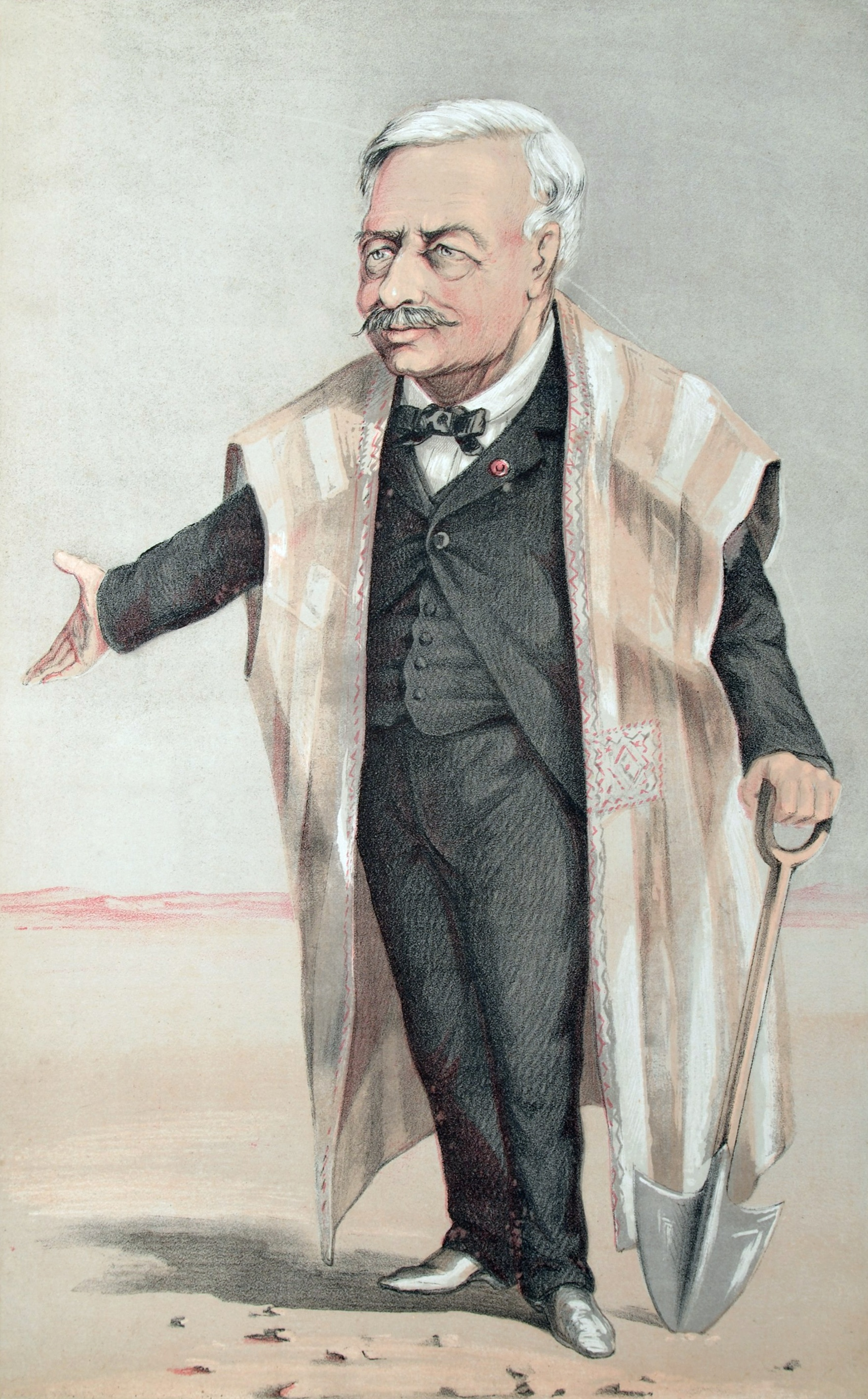 Men or Women of the Day No.2: Caricature of Le Viscomte de Lesseps. Caption reads: "He suppressed an isthmus."